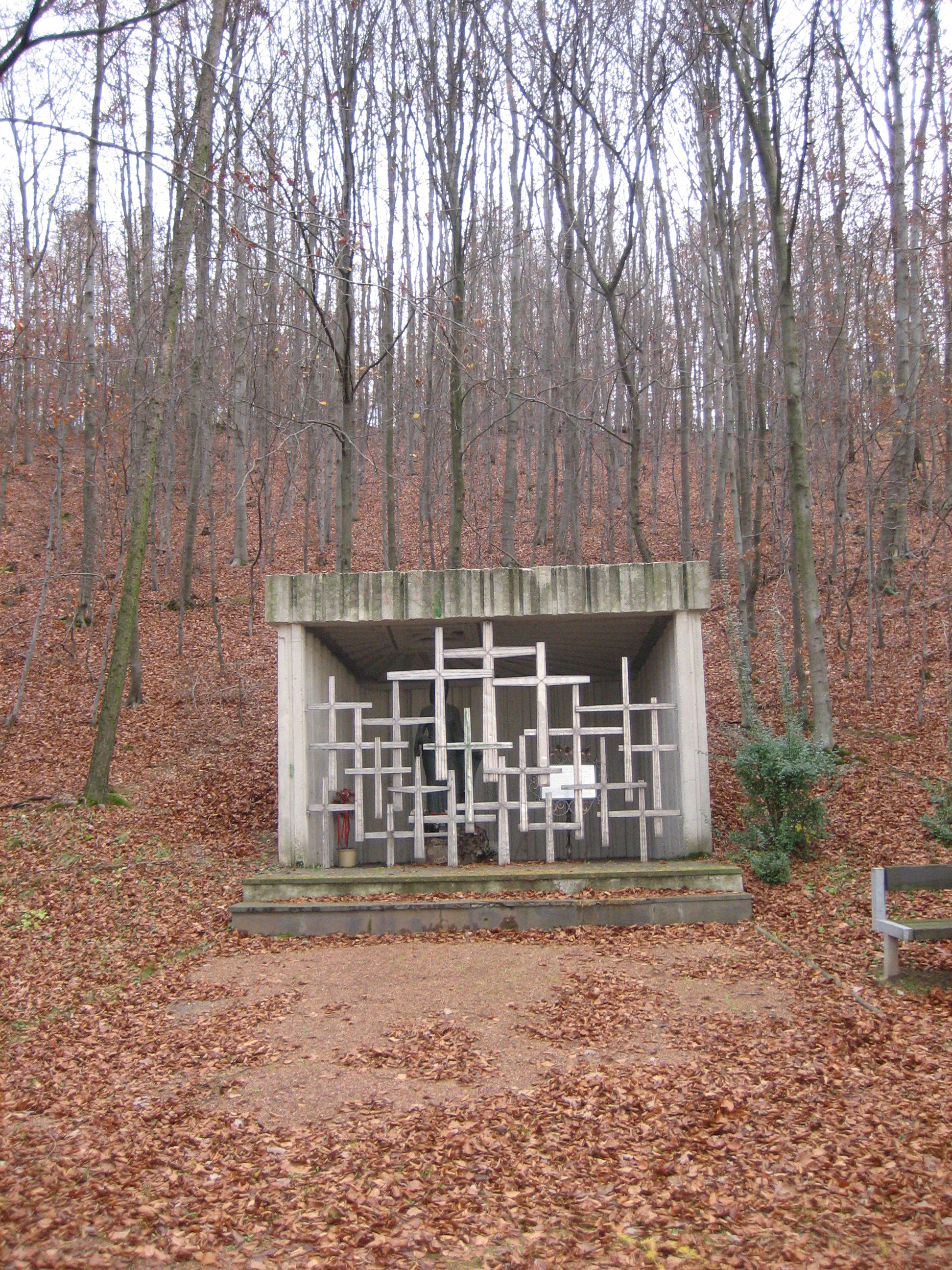 This is a photograph of an architectural monument.